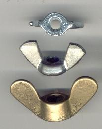 Nut hardware